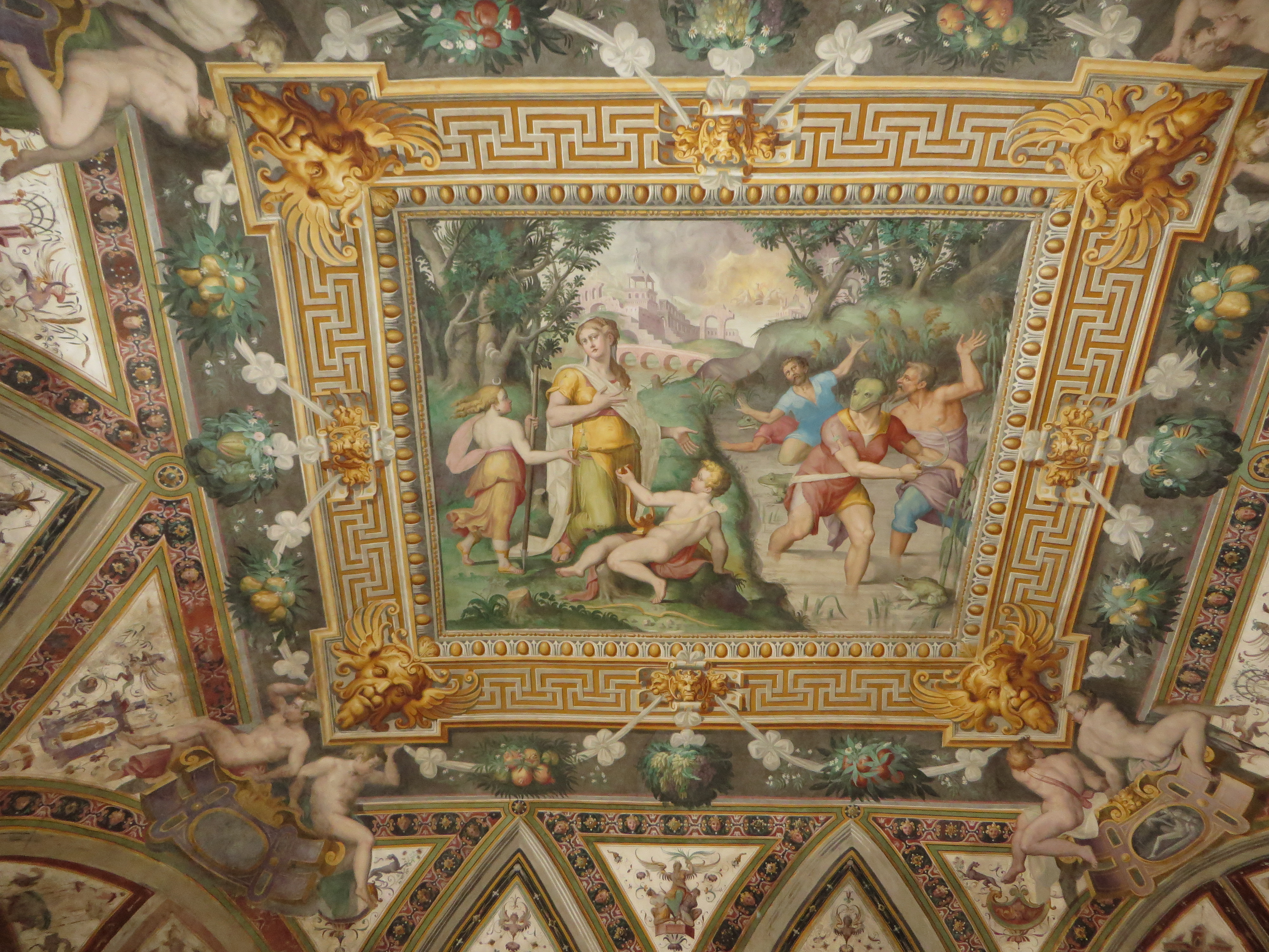 Rossi Castle San Secondo17